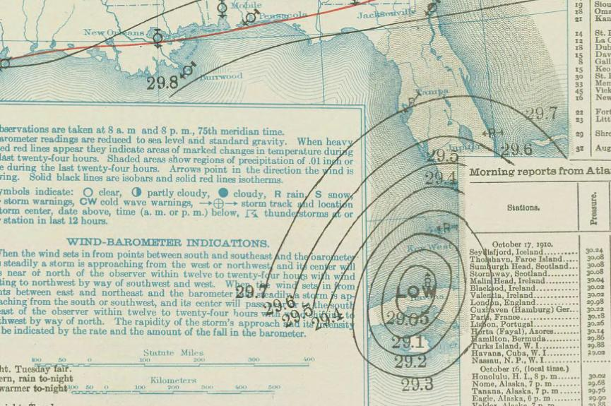 Surface weather analysis of the 1910 Cuba hurricane on 17 October 1910.